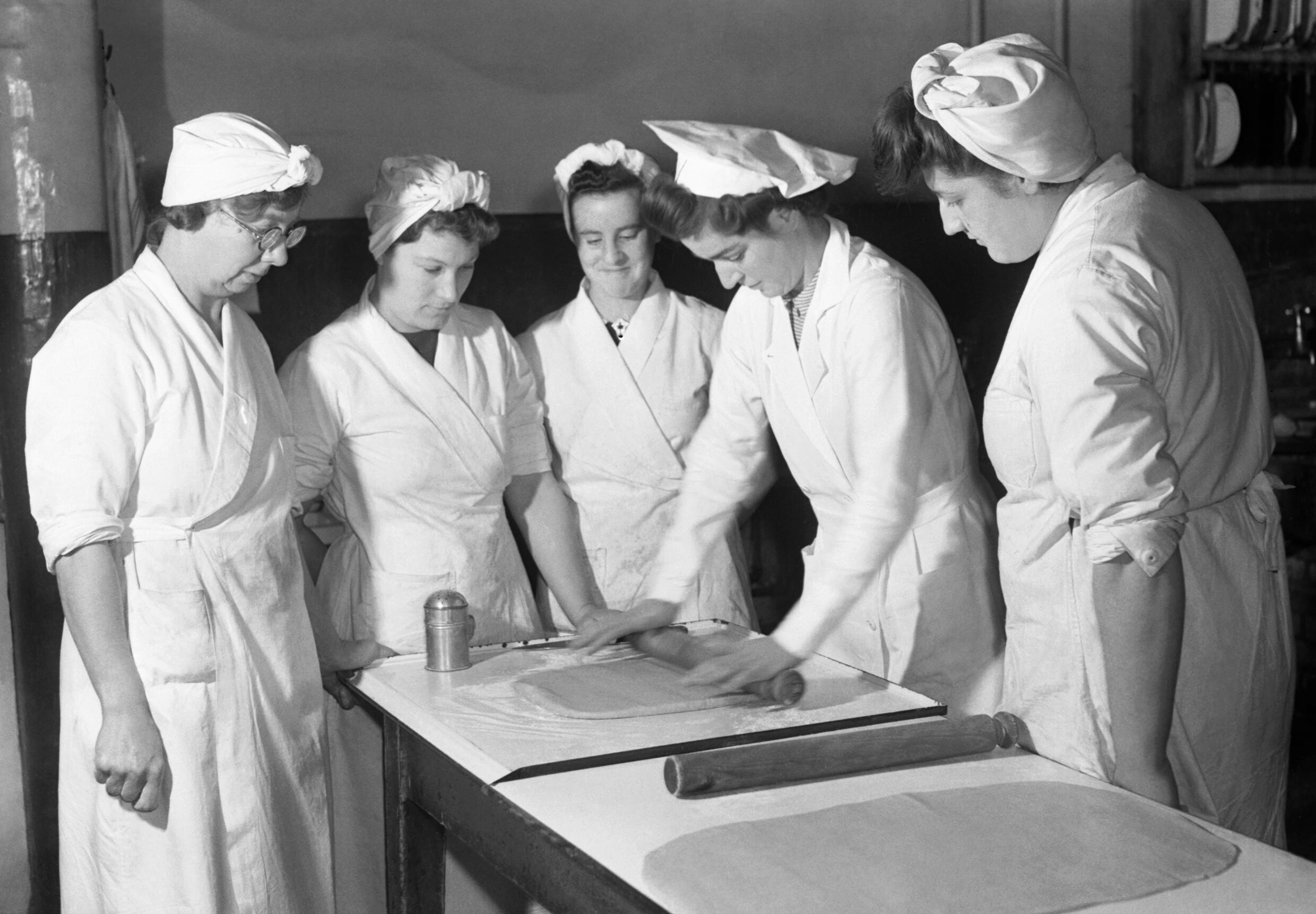 Pastry making demonstration at the National Training College of Domestic Science, Westminster, London, 1944. An instructor (second from right, wearing flat-topped cap) at the National Training College of Domestic Science, demonstrates pastry-making to a group of students in one of the large kitchens at the college.